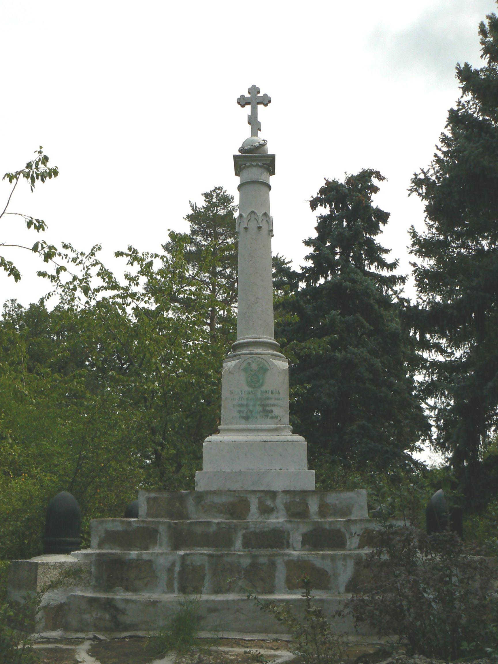 Monument of fallen Finnish soldiers in Park Lavrov, near village Gorni Dubnik, Bulgaria